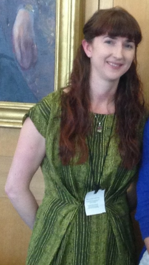 Dr. Katherine Joy, former postdoc in the Center for Lunar Science and Exploration, now at the University of Manchester. On 14 May 2014, a special session of Parliament was held in the Boothroyd Room, Porticullis House, London. The session was titled “Missions to the Moon: Parliamentary Update on Lunar Science and Exploration.” Several former students and postdocs from the Center for Lunar Science and Exploration (CLSE) were invited to attend.